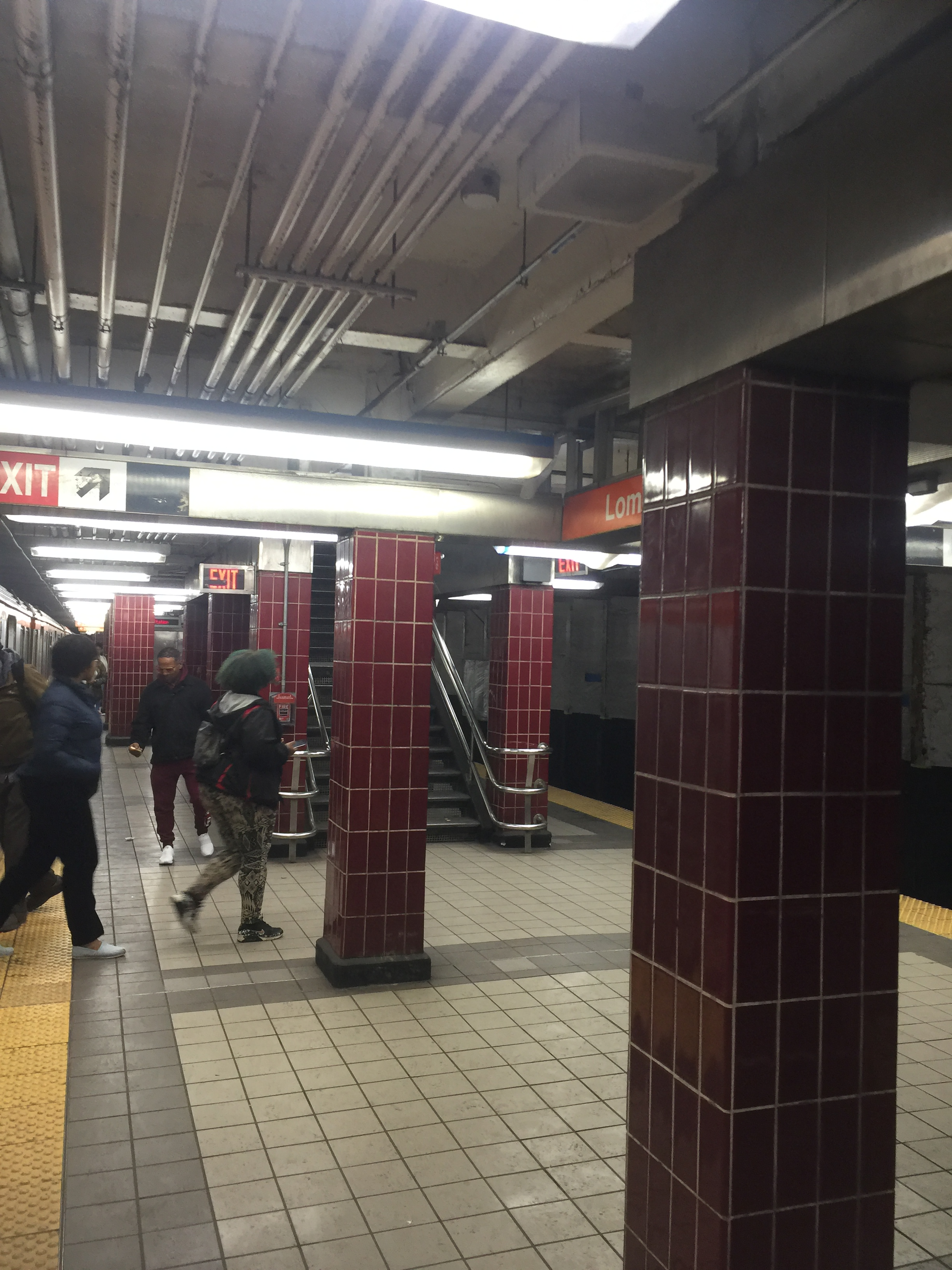 Lombard South